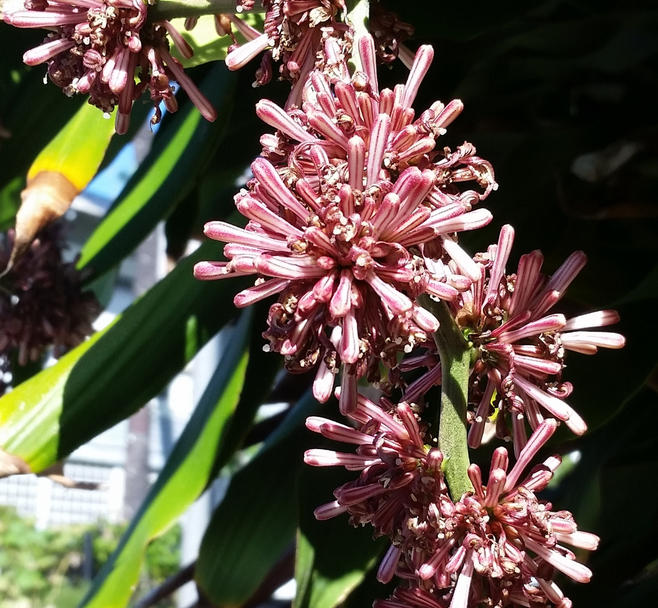 Dracaena fragrans ‘Massangeana’ flowers in a private yard in Honolulu. Dracaena fragrans. Dracaena fragrans ‘Massangeana’ in a private yard in Honolulu